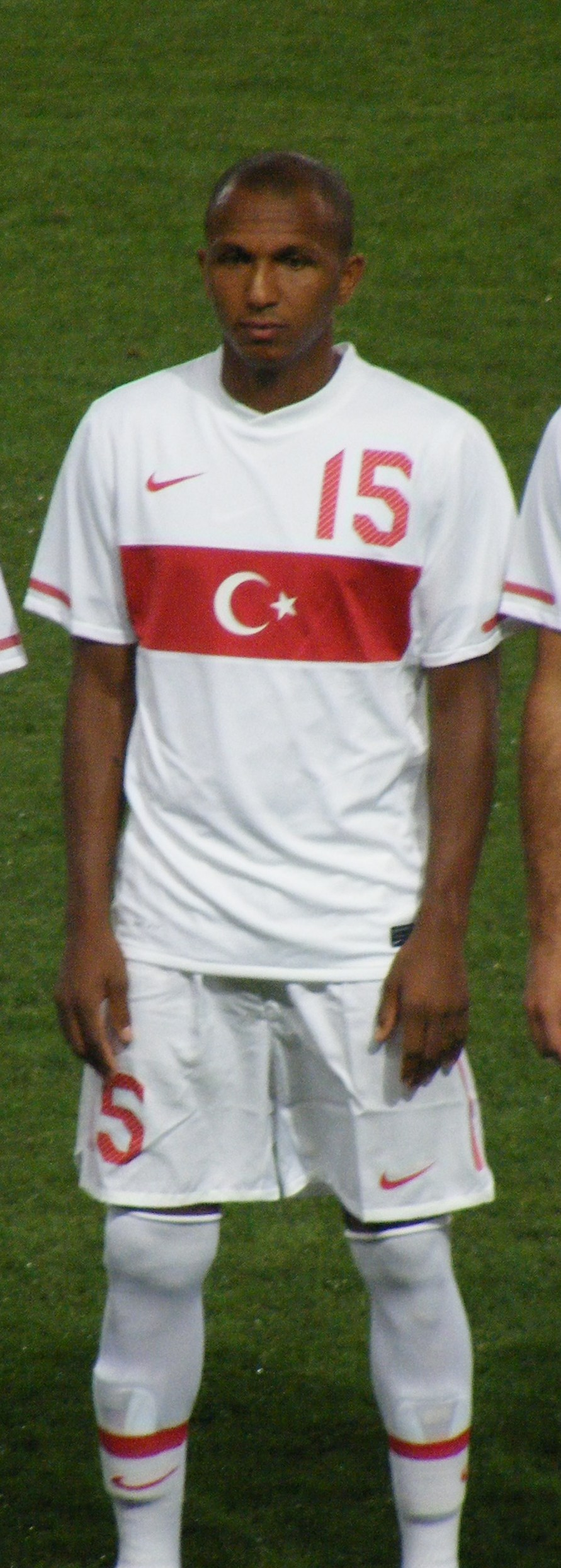 Marco "Mehmet" Aurelio in national jersey at match vs Romania in 11st Aug 2010, Wednesday at Fenerbahce Stadium, Istanbul